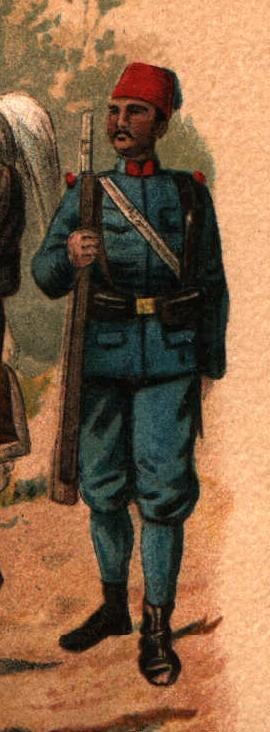 Bosnian infanterist in Austrian-Hungarian Army (around 1897)